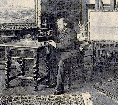 Hans Bohrdt in his art studio. Depicted in the magazine "Die Woche", 1900.